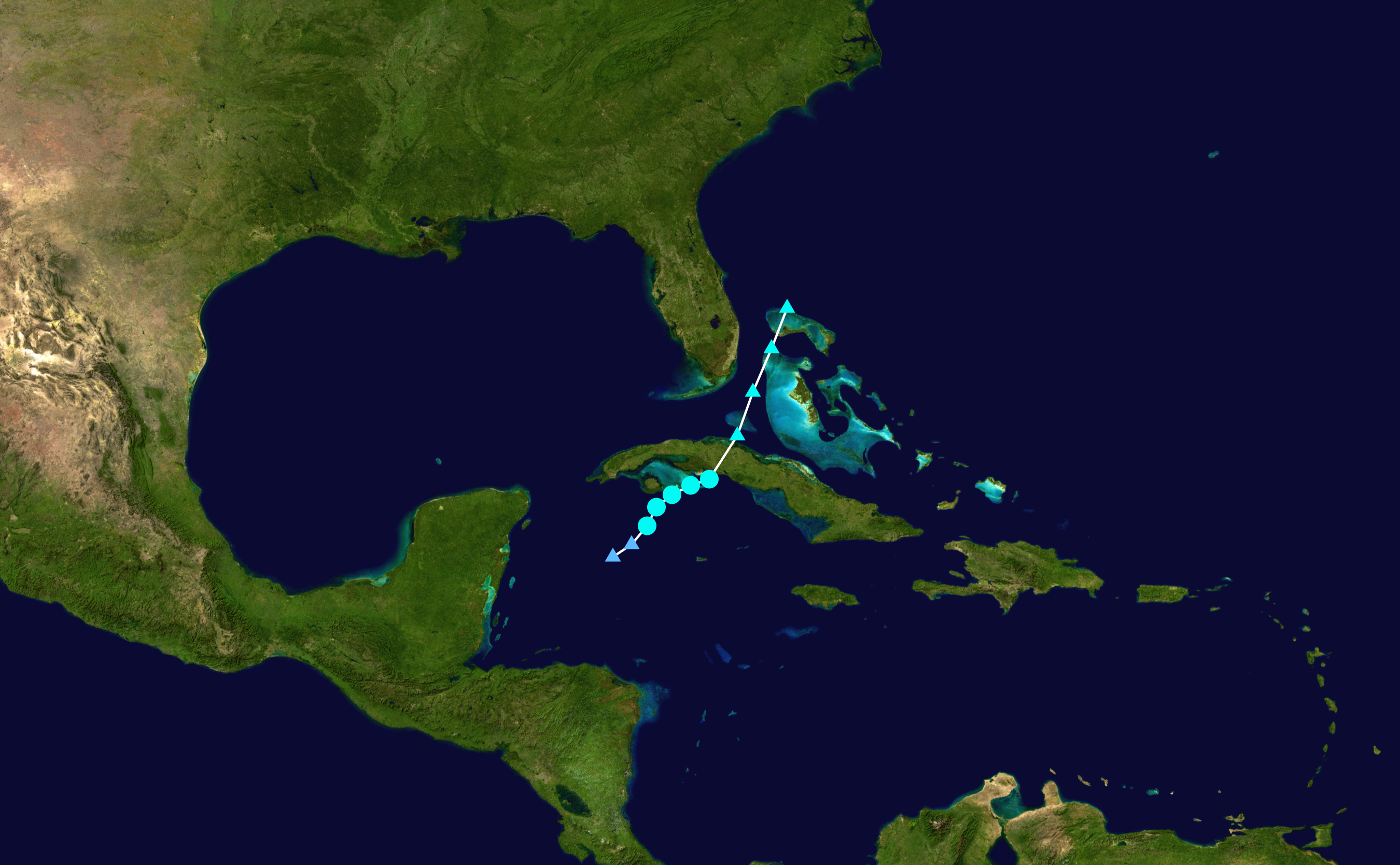 Track map of Tropical Storm Nicole of the 2010 Atlantic hurricane season. The points show the location of the storm at 6-hour intervals. The colour represents the storm's maximum sustained wind speeds as classified in the Saffir–Simpson scale (see below), and the shape of the data points represent the nature of the storm, according to the legend below. Saffir–Simpson scale Tropical depression≤38 mph≤62 km/h Category 3111–129 mph178–208 km/h Tropical storm39–73 mph63–118 km/h Category 4130–156 mph209–251 km/h Category 174–95 mph119–153 km/h Category 5≥157 mph≥252 km/h Category 296–110 mph154–177 km/h Unknown Storm type Tropical cyclone Subtropical cyclone Extratropical cyclone / Remnant low / Tropical disturbance / Monsoon depression